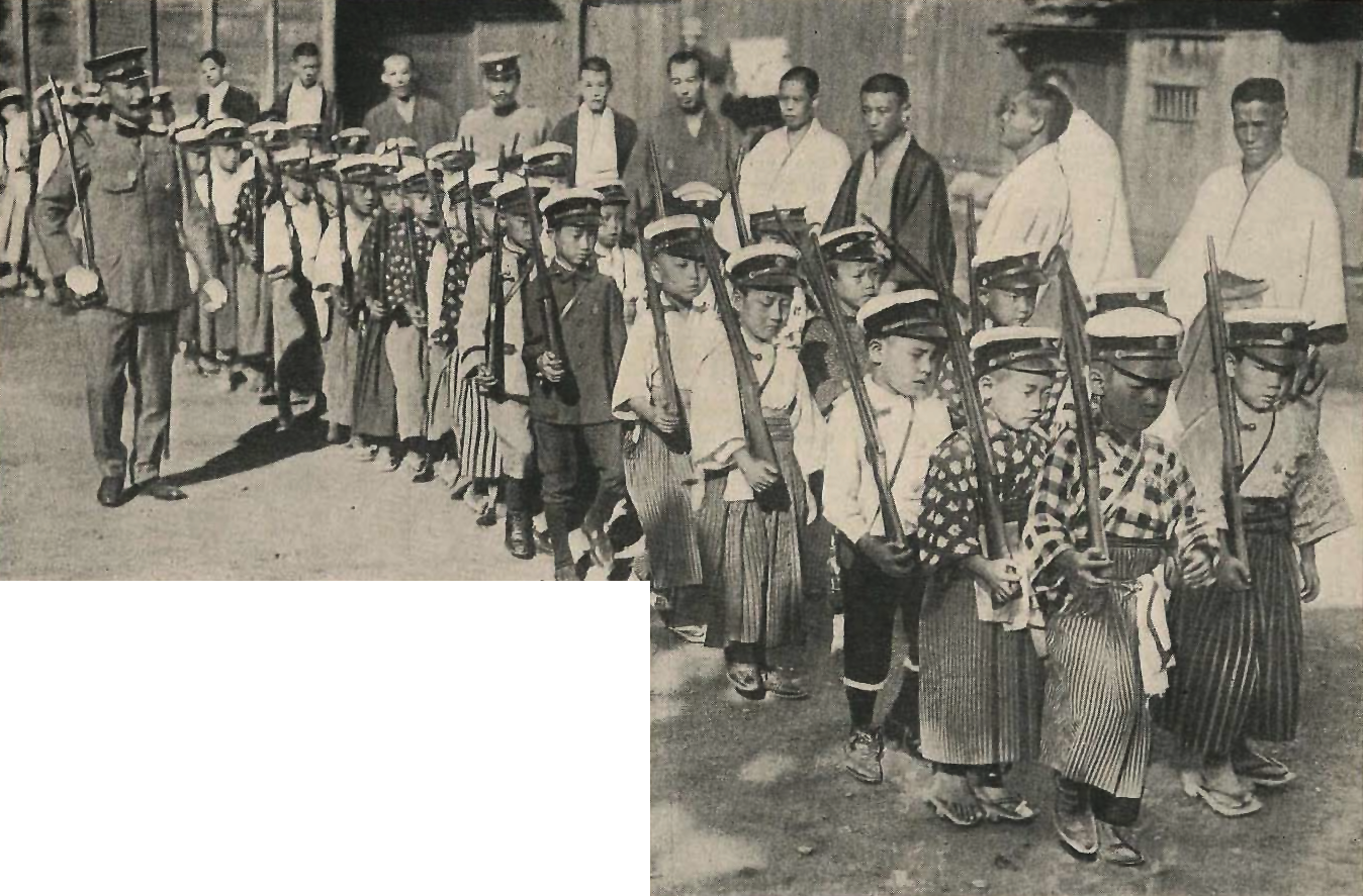 Japan drills Boy Scouts with rifles, from January 13, 1916 Leslie's Illustrated Weekly Newspaper